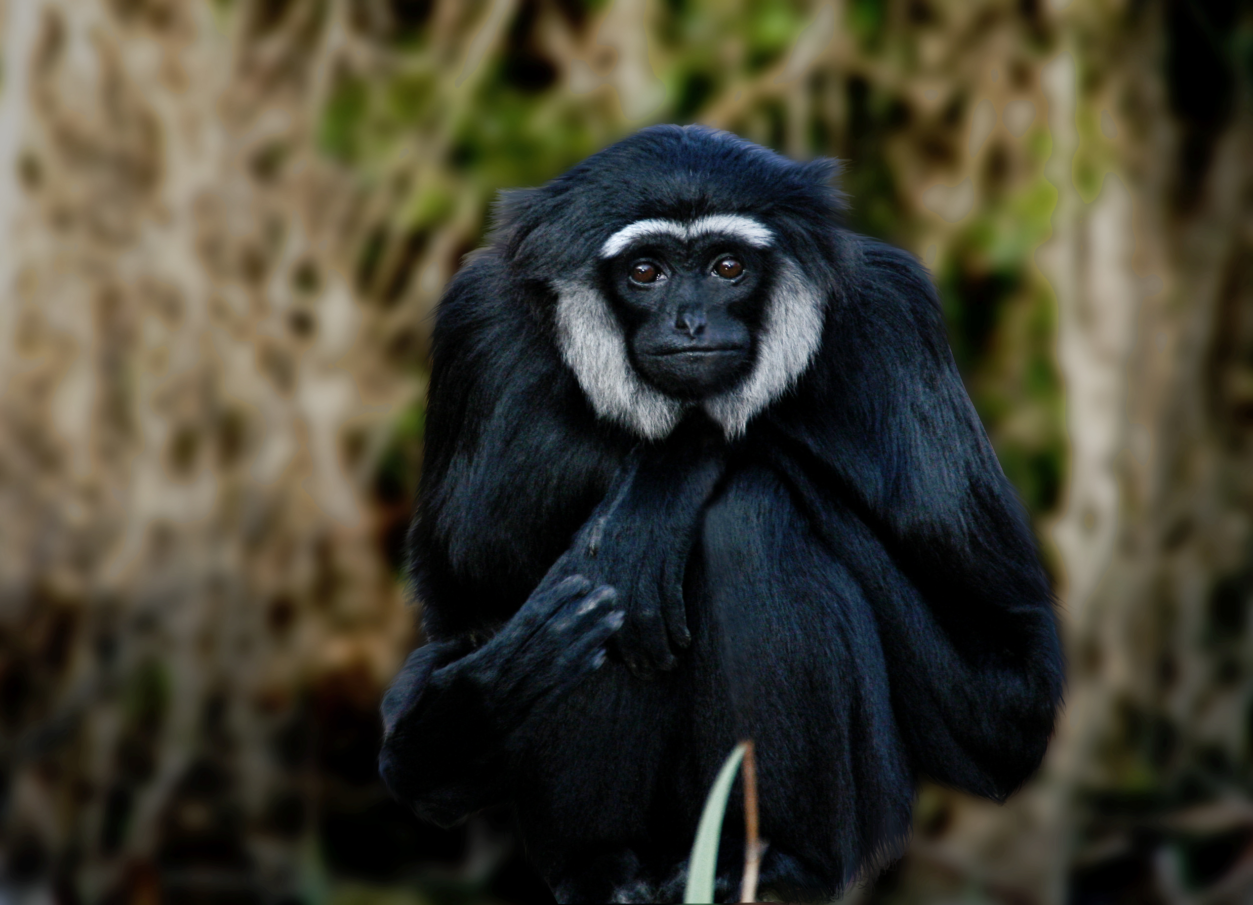 A beautiful male Agile Gibbon (Hylobates agilis) photographed at Bristol Zoo, UK.